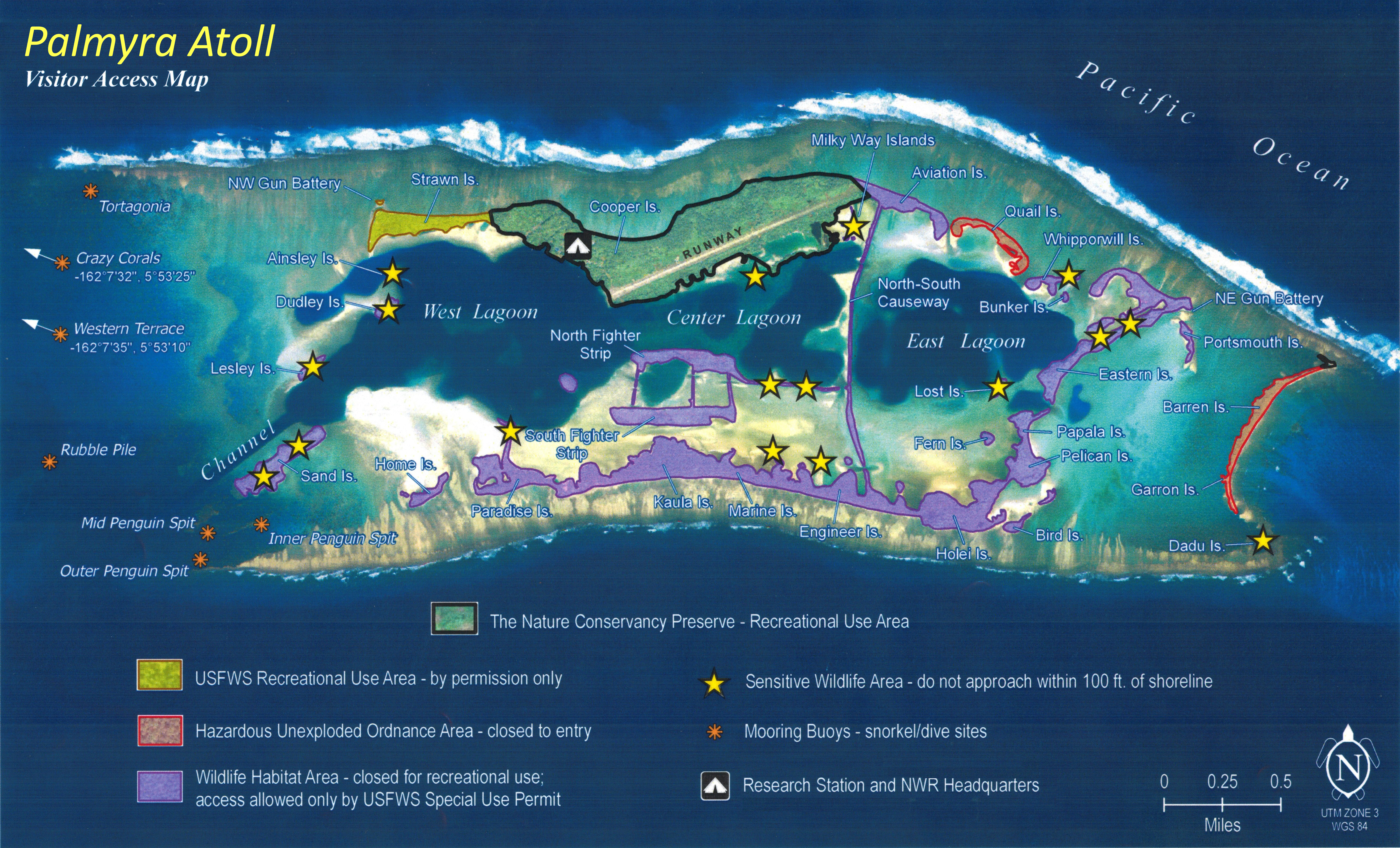 Map of accessible and restricted areas at Palmyra Atoll National Wildlife Refuge